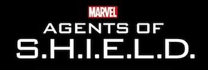 Logo and styling of typeface for the television series, Agents of S.H.I.E.L.D.